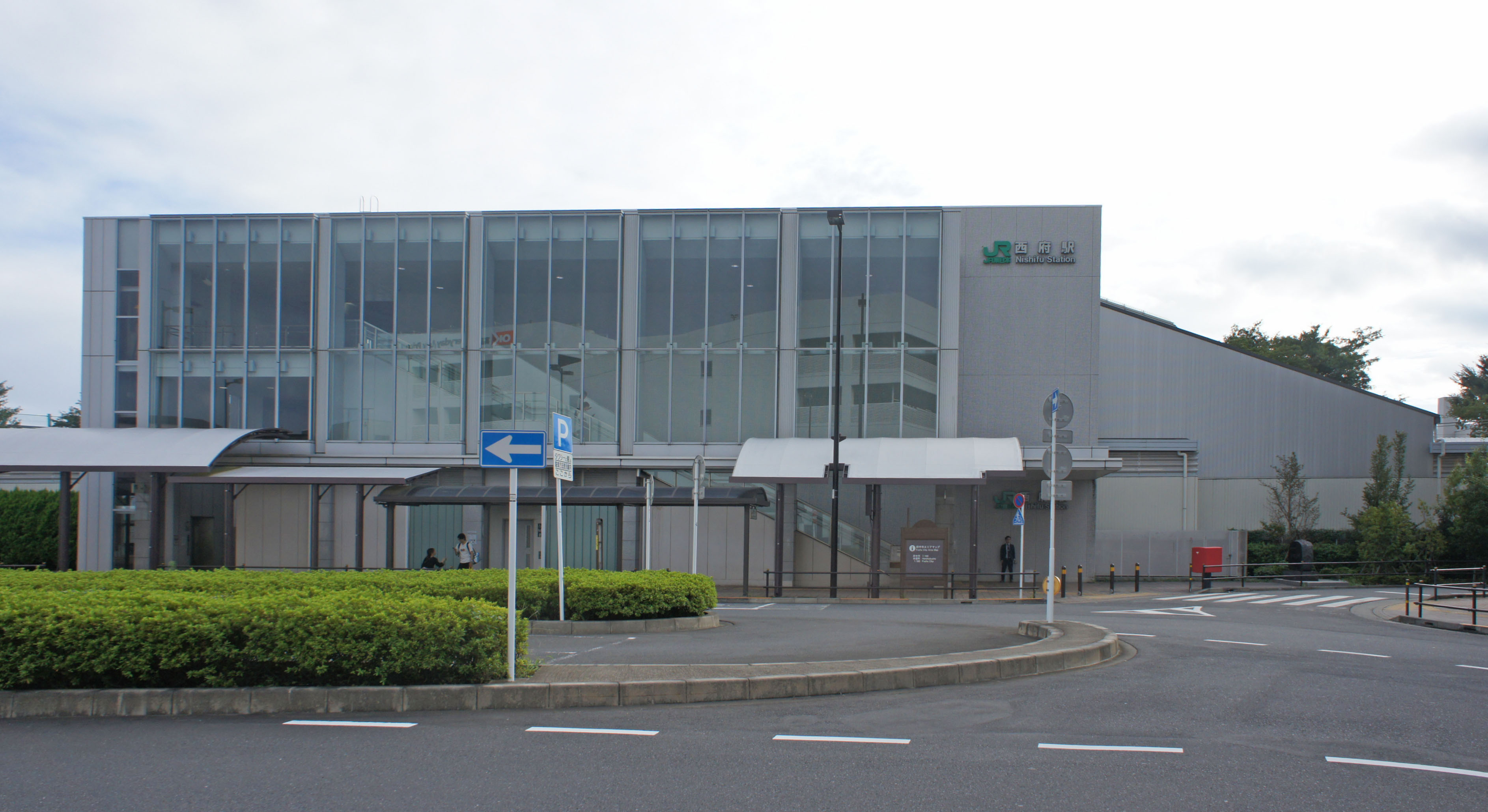 North Exit of JR Nambu-Line Nishifu Station